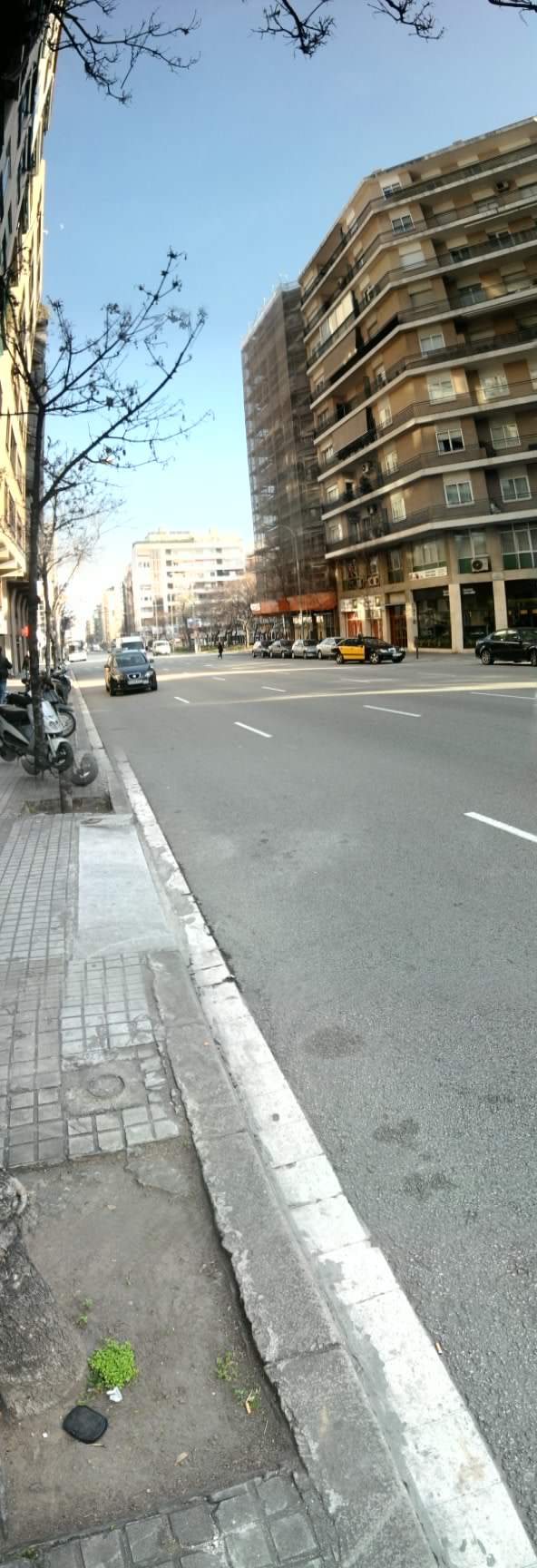 Avinguda de Sarrià in Les Corts